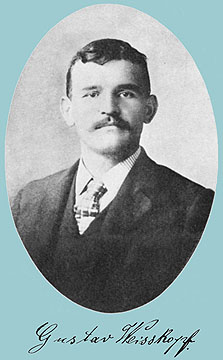 Author: Unknown. Historic portrait photo Gustave Whitehead, born "Gustav Albin Weisskopf" on January 1, 1874, at Leutershausen, Germany. Gustave moved to the U.S. in 1895 and he anglicized his name upon his entry into the U.S. and immediately began to actively pursue his dream of flight.